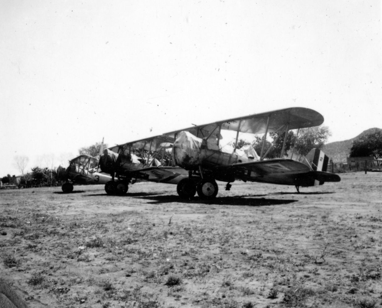 Image from an Album (AL-77) belonging to Charles Rector, who was a pilot whose career spanned several generations. Some highlights of his life include working for Tallmantz aviation on many major Hollywood Movies, and working as Mick Jagger's pilot. More info on Rector can be found here: SOURCE INSTITUTION: San Diego Air and Space Museum Archive